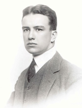 Cropped photo of young Buckminster Fuller